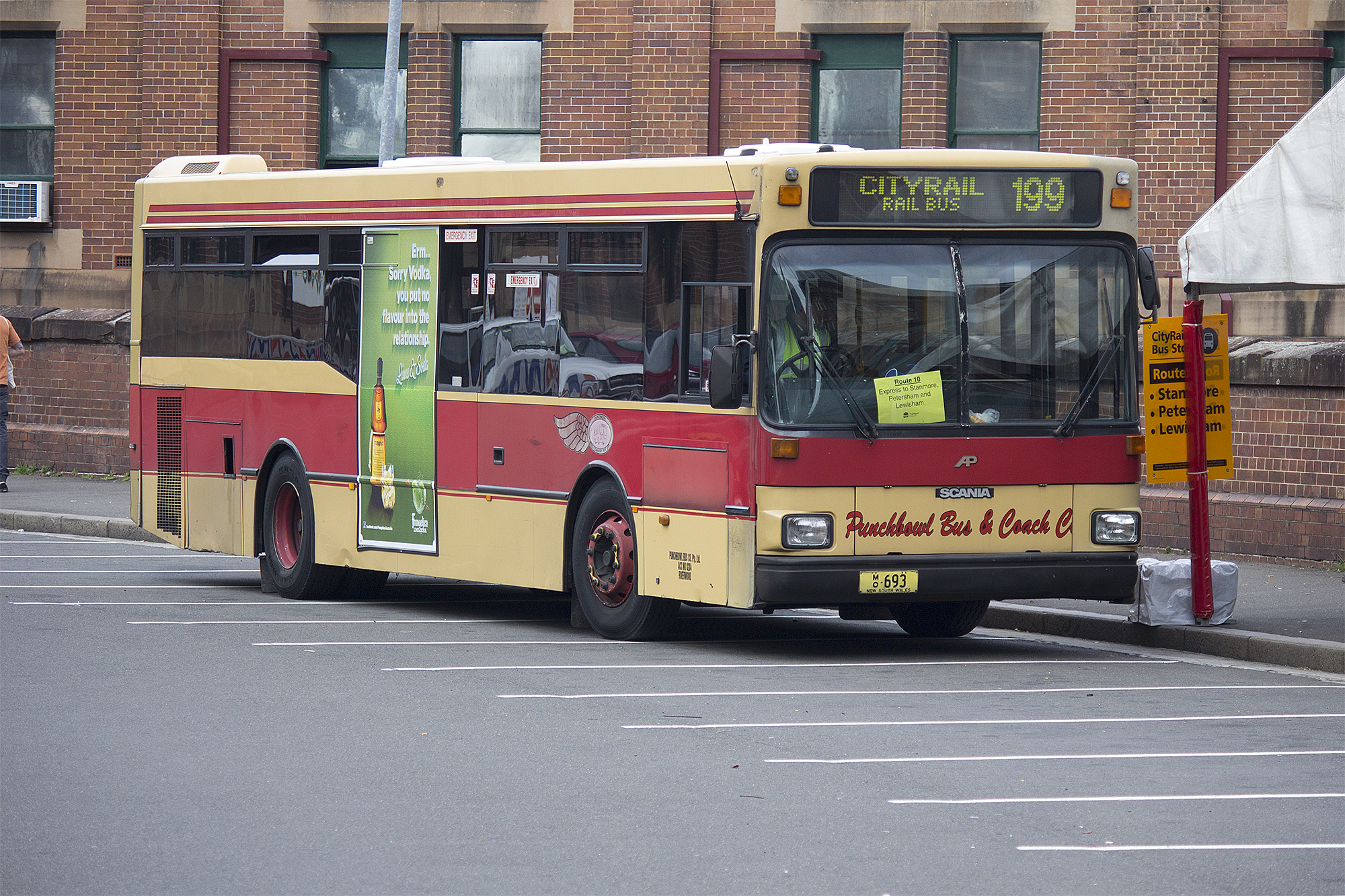 Punchbowl Bus Co (mo 693) Austral Pacific bodied Scania L113CRL at Central Station in Sydney.